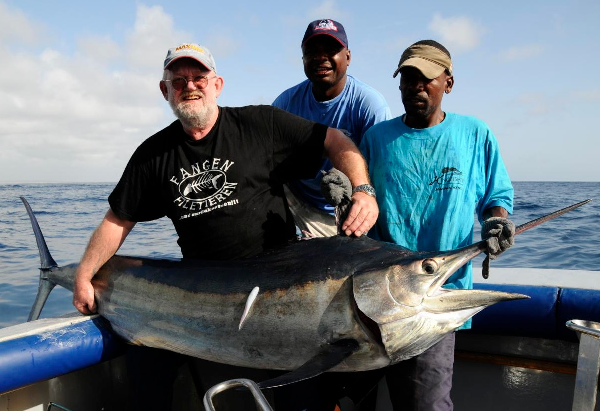 Istiompax indica (syn. Makaira indica) caught in Watamu, Kenya.